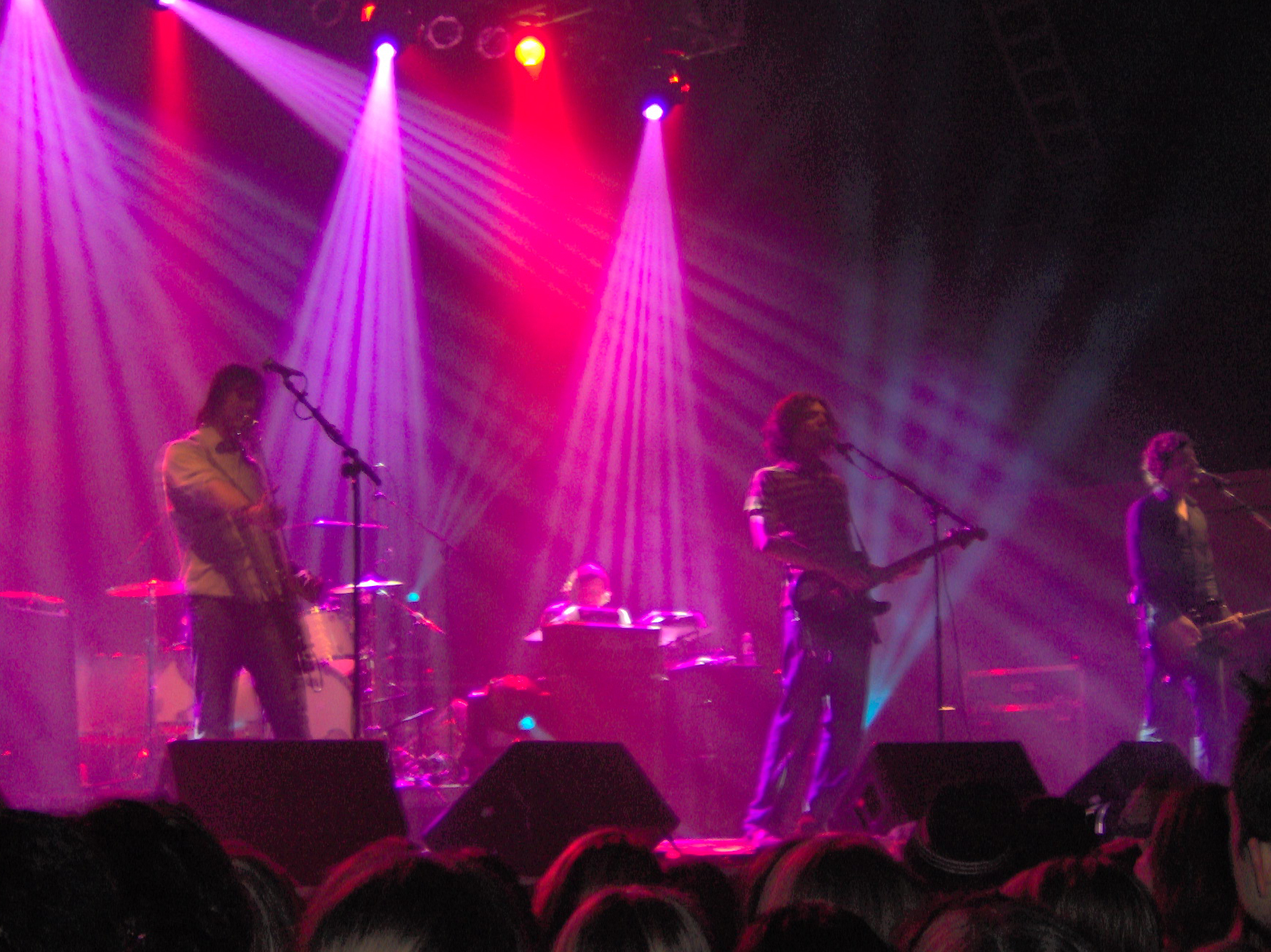 Snow Patrol, at the Roseland Ballroom in New York City on May 20, 2005